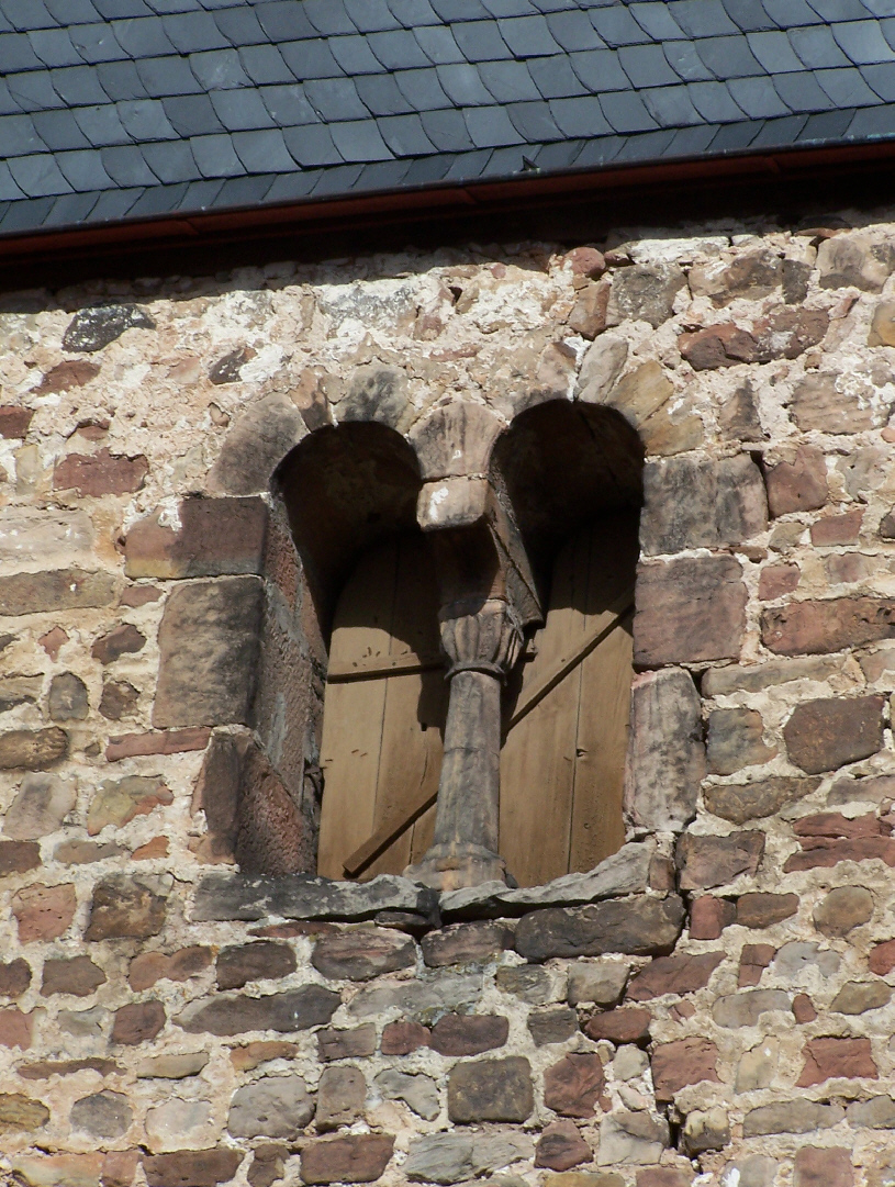 Details at the belltower in Stadtlengsfeld.